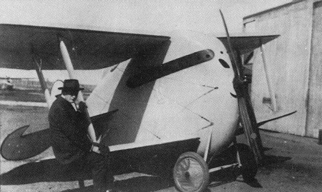 Photo of DFW T.28 Floh WW1 fighter samf4u, 1.jpg